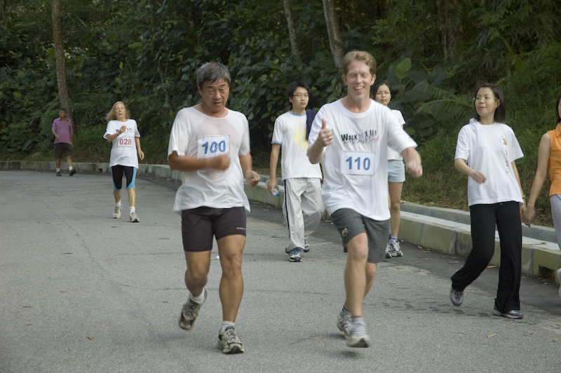 Residents exercising in the park